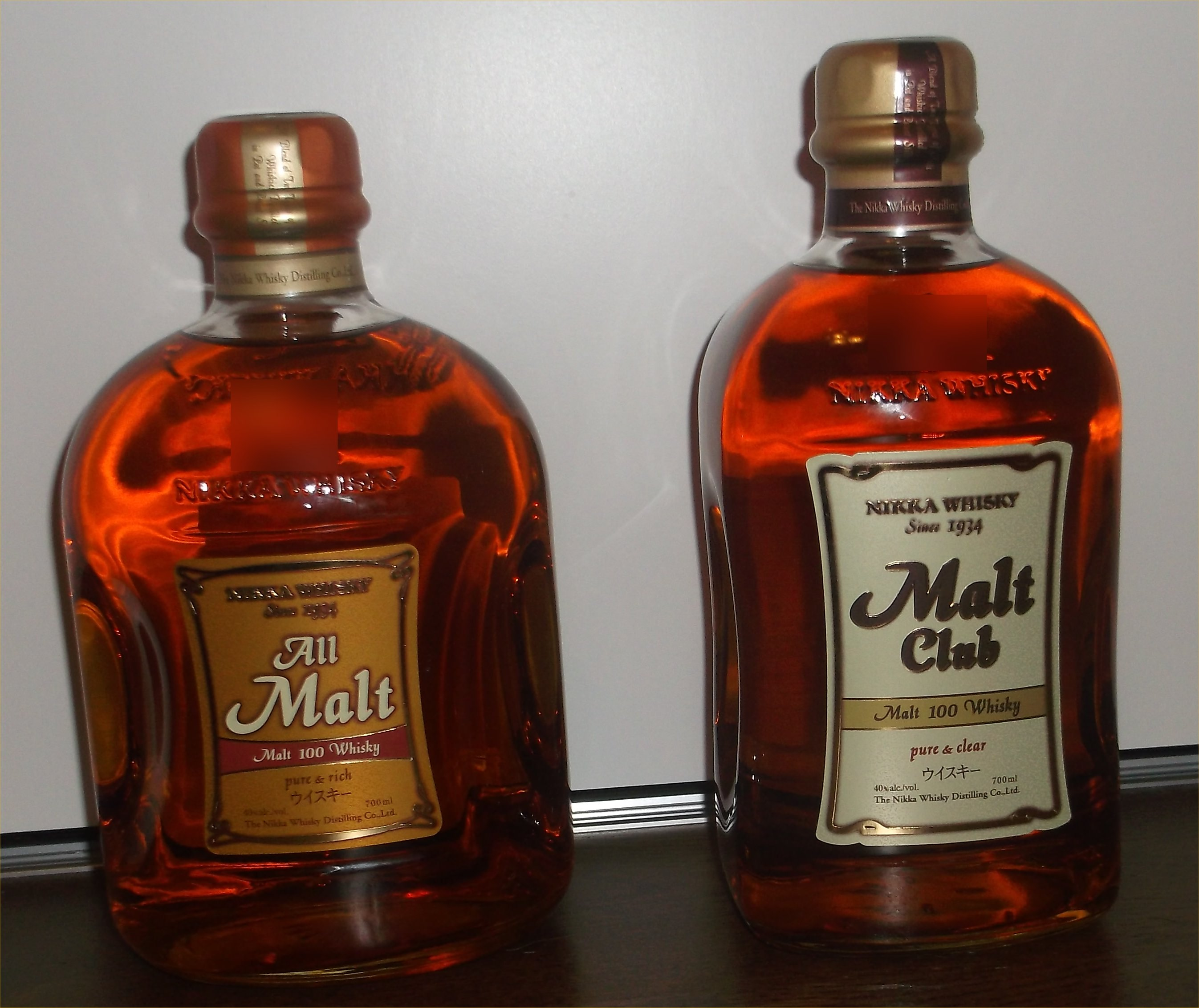 A photo of Nikka Whisky "All Malt"(left),"Malt Club"(right) blended whiskies in Japan.(produced by Nikka Whisky Distilling)